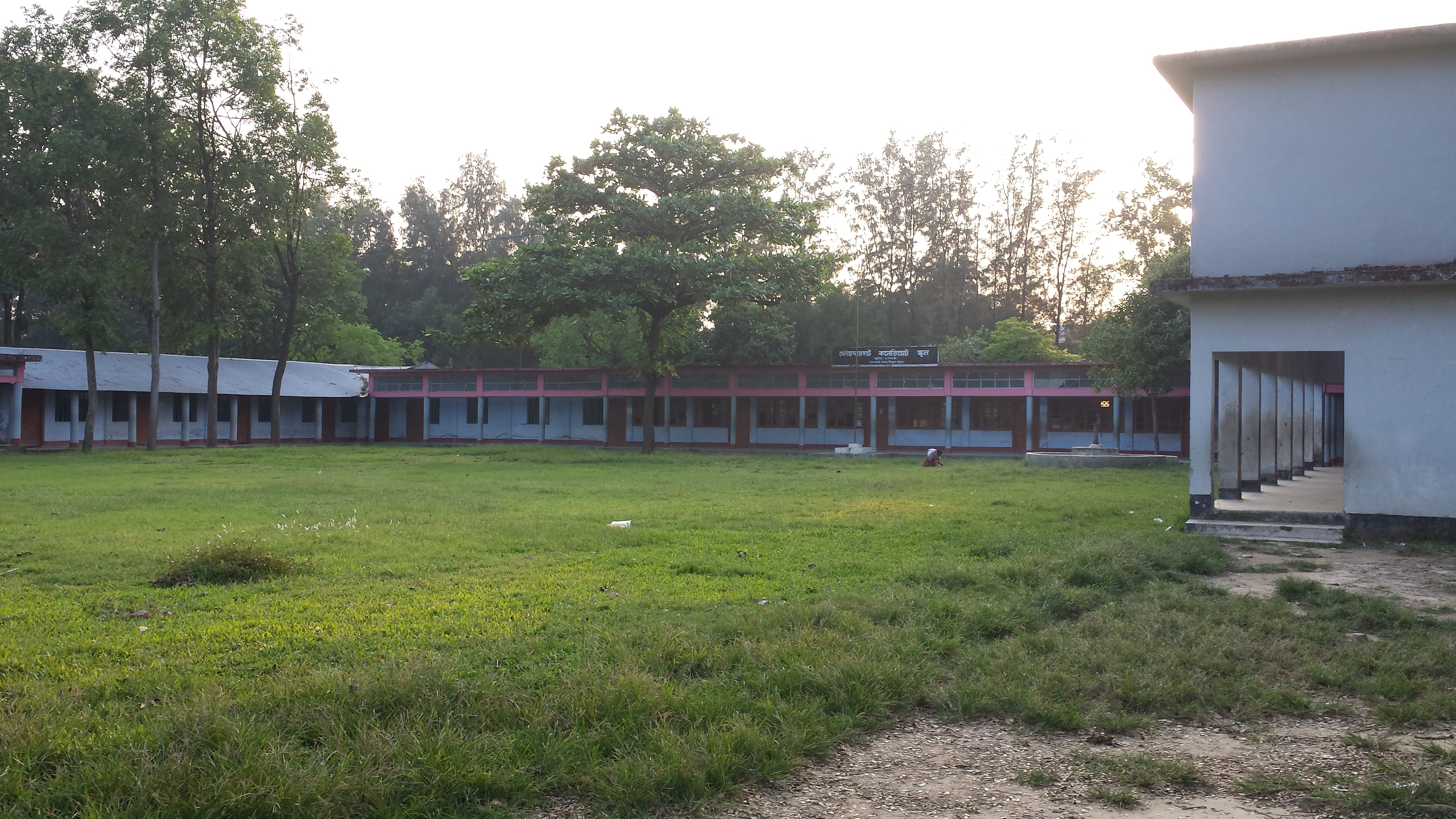 It is a photo Faujdarhat Collegiate School. The main building is visible in the picture with the nut tree and green field.